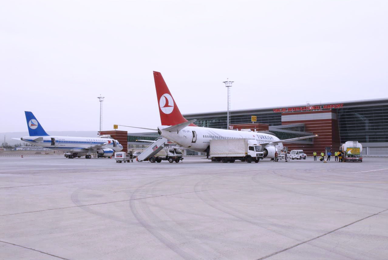 First departure at the new terminal of Tbilisi International Airport on its opening day. A Turkish Airlines Boeing 737-8F2 (TC-JFL) on the foreground and am Azerbaijan Airlines Airbus A319 on the background.